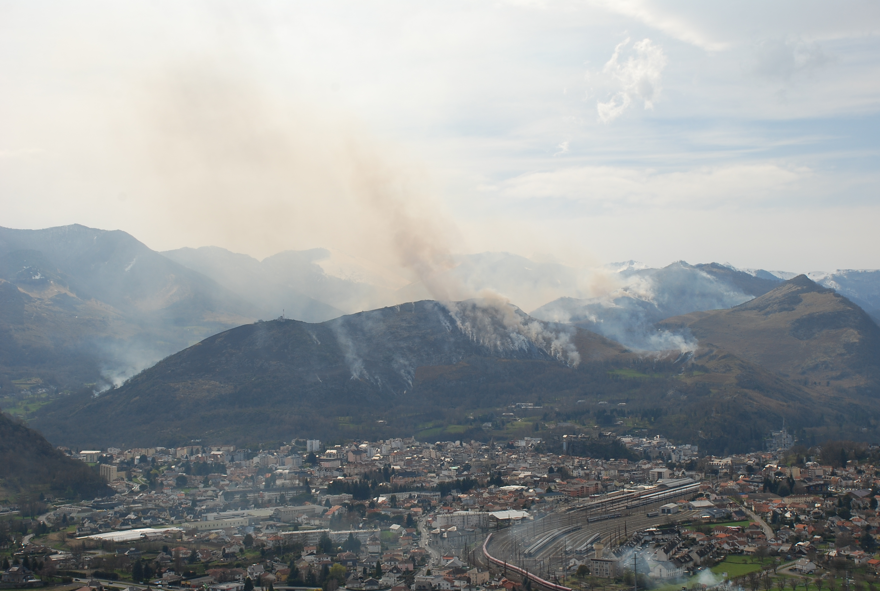 Controlled burn, on Beout mountain, in Lourdes (Hautes-Pyrénées) France (2013-03-22)